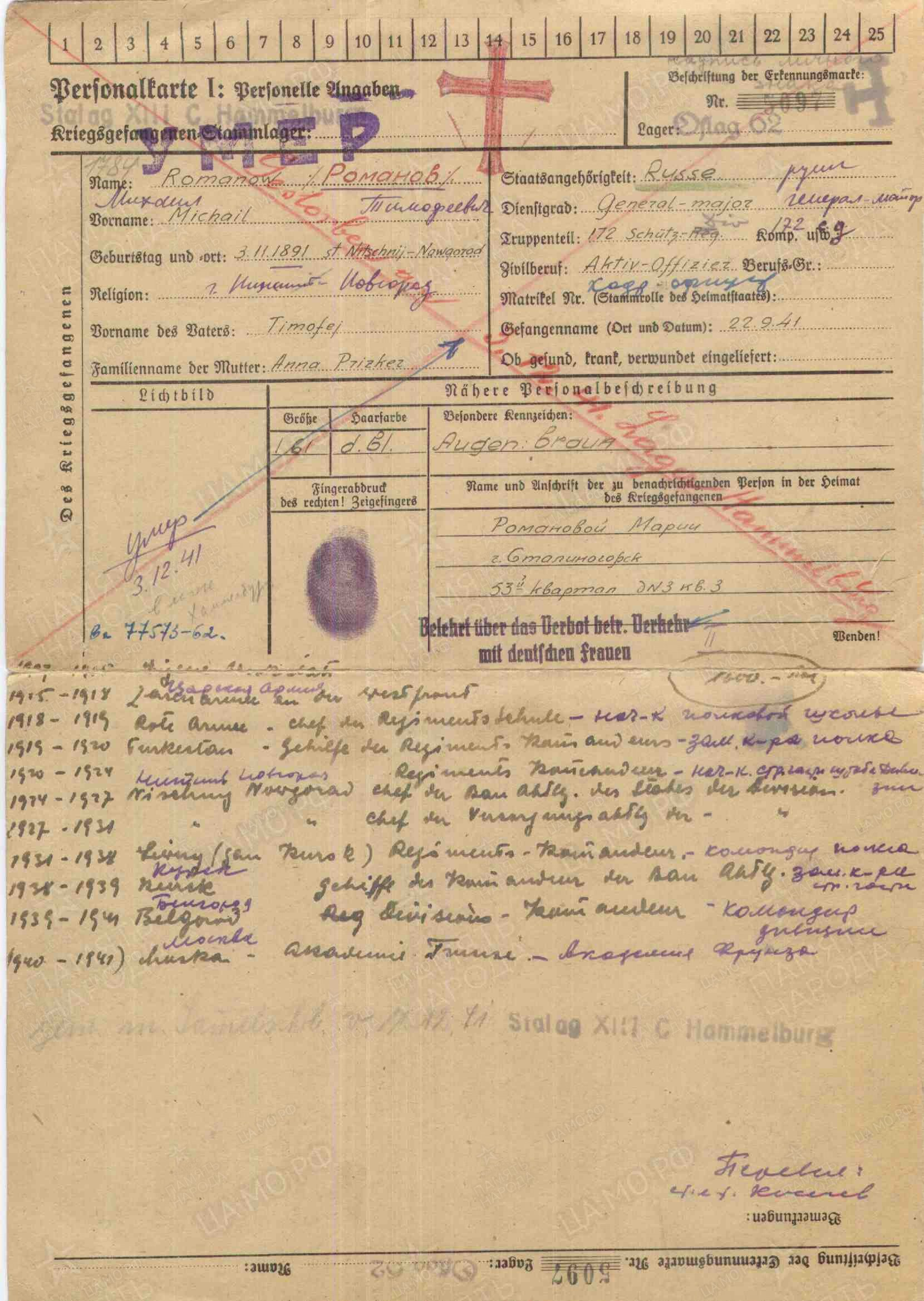 Personalkarte I for Soviet prisoner of war Mikhail Timofeyevich Romanov at Oflag 62 Hammelburg